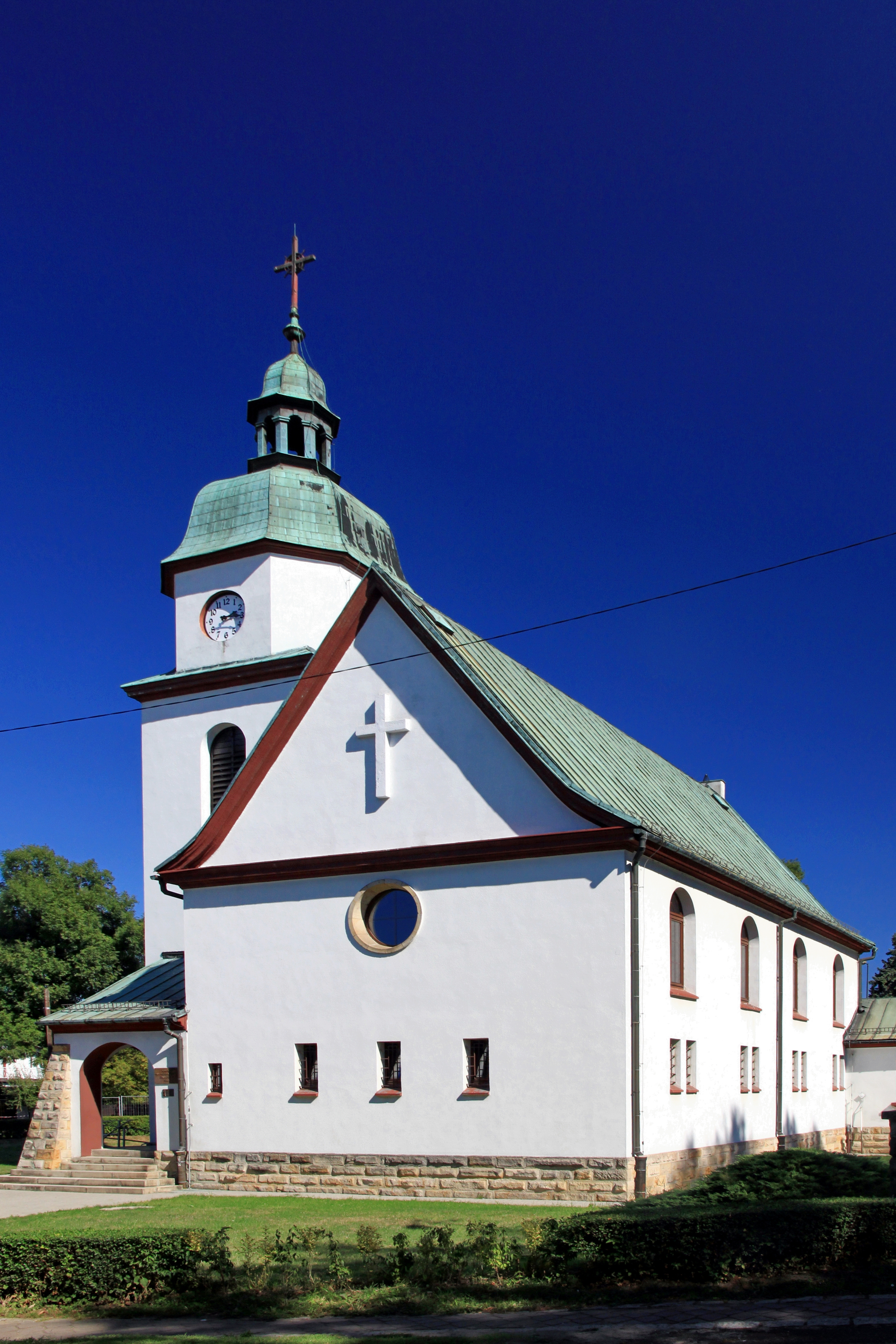 Żory, lutheran church, build in 1931